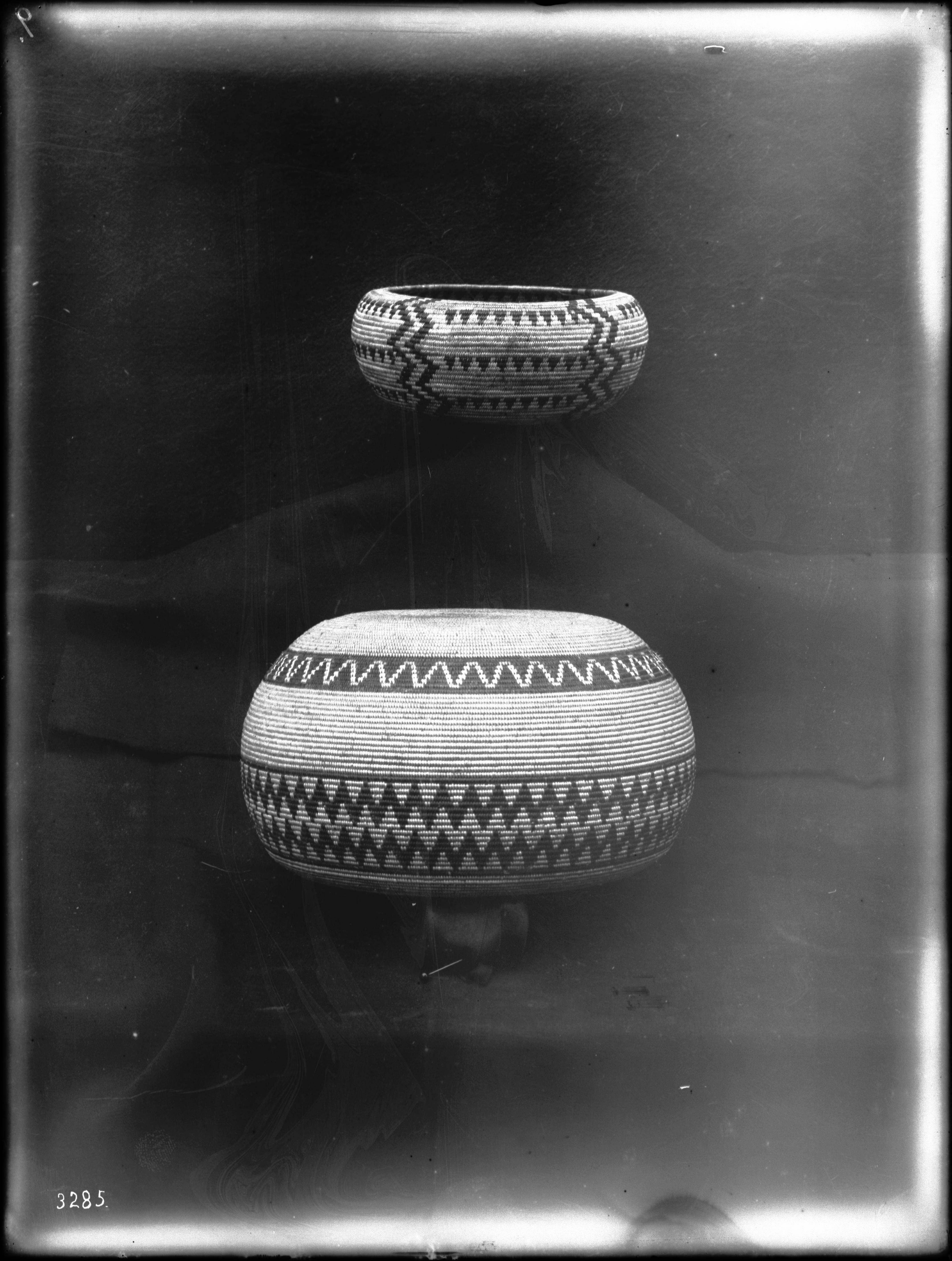 Two Indian baskets on display, ca.1900 Photograph of two Walapai Indian baskets on display, photographed ca.1900. They are both shaped like somewhat flattened balls. The small one has vertical zig-zags and rows of inverted triangles. The large one has alternating horizontal bands of zig-zags. The smaller one is displayed directly above the other on a dark backdrop. Image 9. Call number: CHS-3285 Photographer: Pierce, C.C. (Charles C.), 1861-1946 Filename: CHS-3285 Coverage date: circa 1900 Part of collection: California Historical Society Collection, 1860-1960 Type: images; physical objects Part of subcollection: Title Insurance and Trust, and C.C. Pierce Photography Collection, 1860-1960 Repository name: USC Libraries Special Collections Format: glass plate negatives Microfiche number: 1-162- Archival file: chs_Volume93/CHS-3285.tiff Repository address: Doheny Memorial Library, Los Angeles, CA 90089-0189 Subject (adlf): tribal areas Geographic subject (country): USA Format (aacr2): 2 photographs : glass photonegative, photoprint, b&w ; 22 x 17 cm. Rights: Digitally reproduced by the USC Digital Library; From the California Historical Society Collection at the University of Southern California Project: USC Accession number: 3285 Repository Contributing entity: California Historical Society Date created: circa 1900 Publisher (of the digital version): University of Southern California. Libraries Format (aat): photographic prints; photographs Legacy record ID: chs-m15936; USC-1-1-1-14023 Access conditions: Send requests to address or e-mail given. Phone (213) 821-2366; fax (213) 740-2343. Subject (file heading): Indians -- Arts and crafts -- Basketry Subject (lcsh): Indians of North America; Indians of North America -- Industries; Baskets; Indians of North America -- Basket making